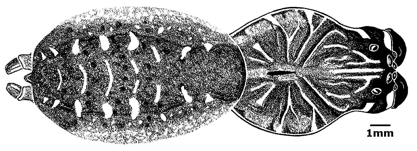 Sosippus texanus (Lycosidae), female, paratype from Goose Island State Park, Aransas Co., Texas, 15 Jun. 1961.